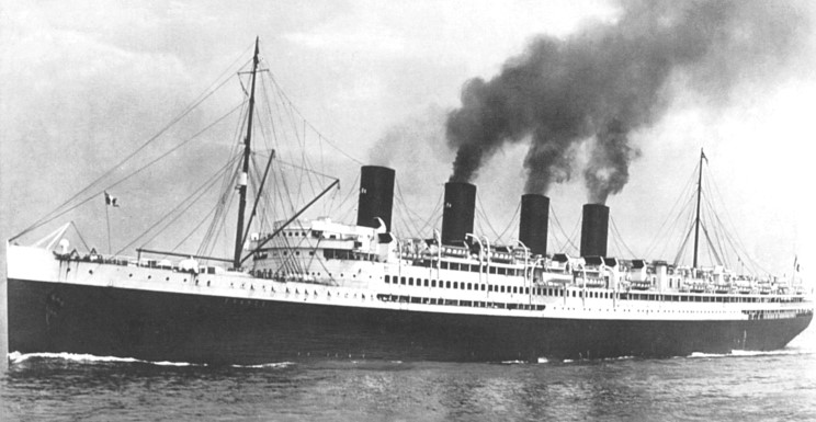 SS France (1912 ship).